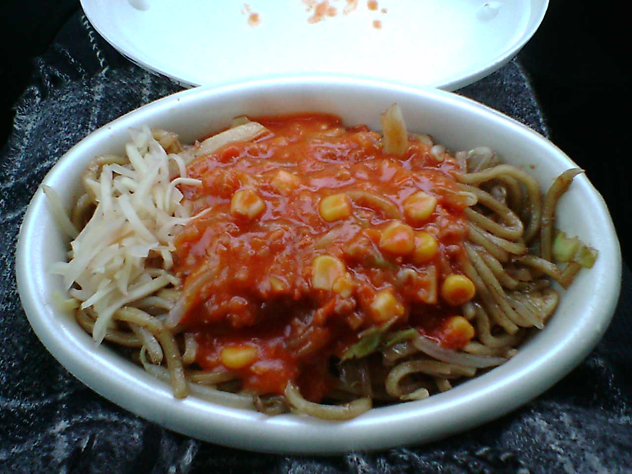 This picture shows the meal which is called "ITARIAN(Italian)" . It is served at the fast food chain "Mikazuki".